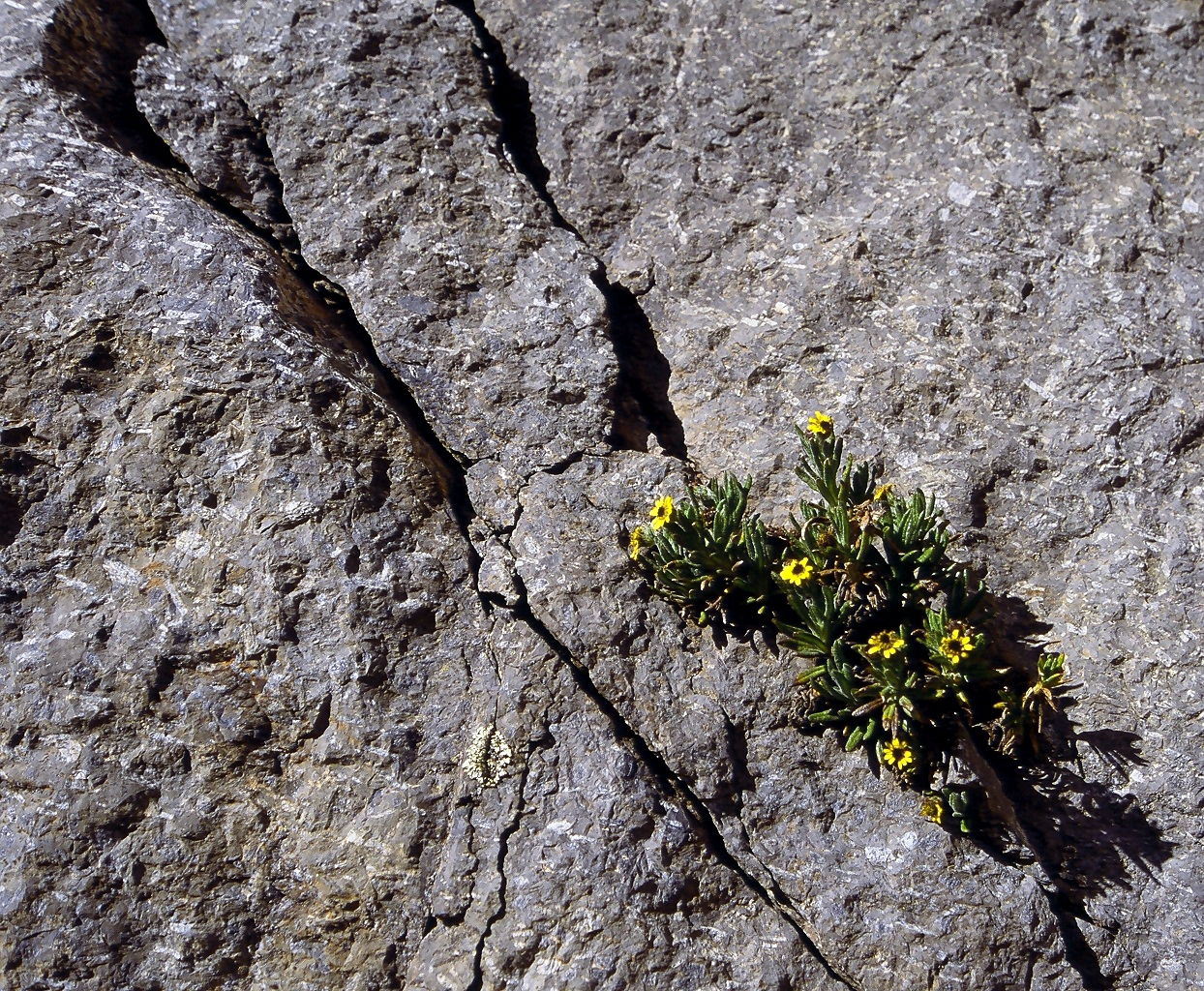 Senecio keniophytum on the Austrian Hut ridge